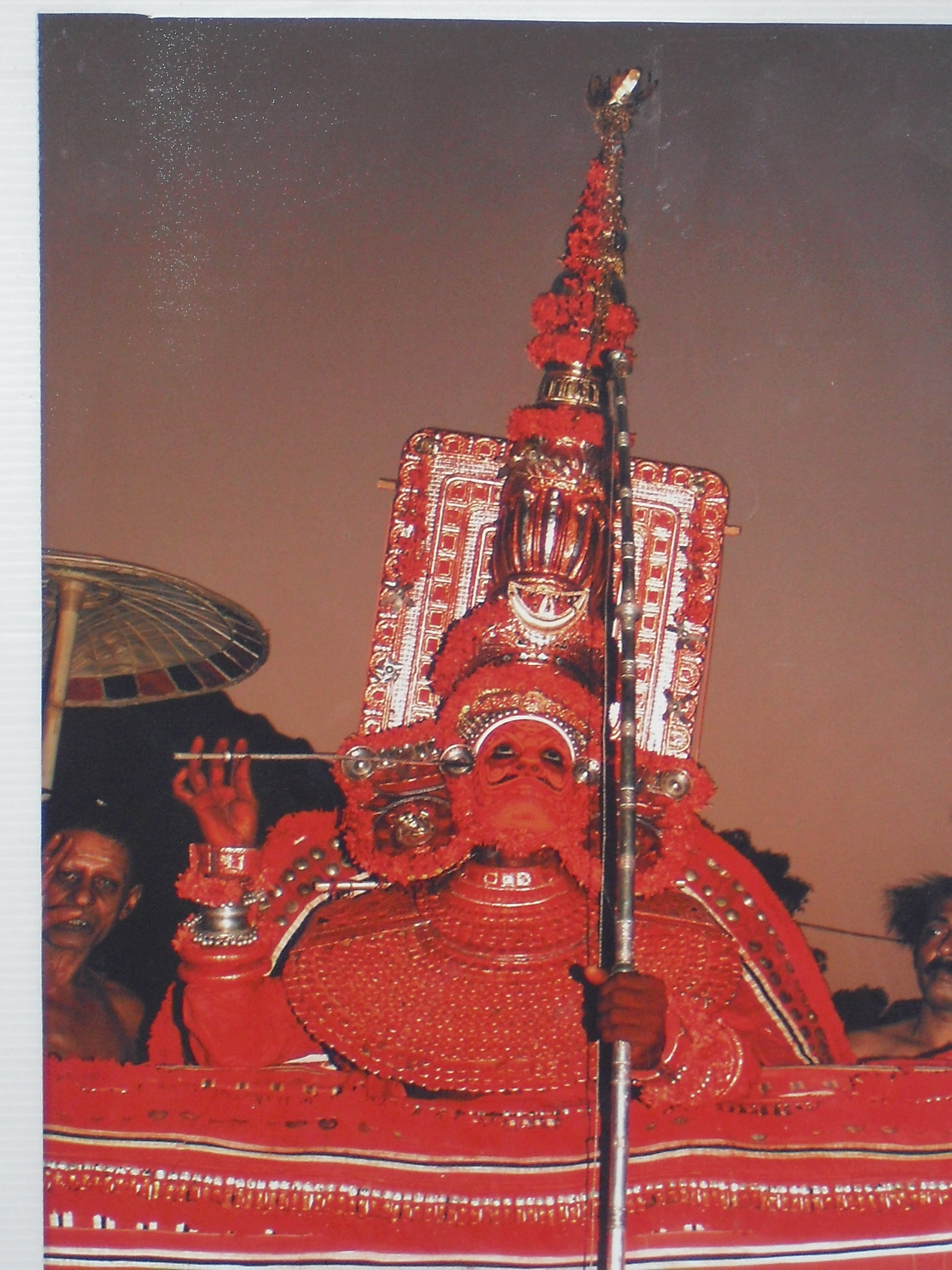 theyyam in kerala